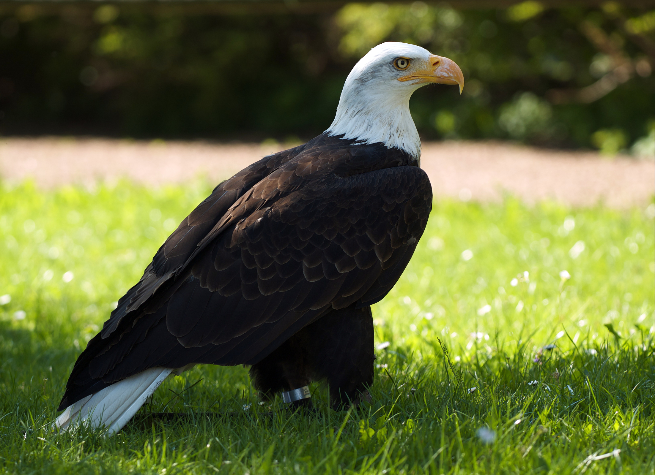 Bald eagle (Haliaeetus leucocephalus) on a bird show on the castle Augustusburg, Germany